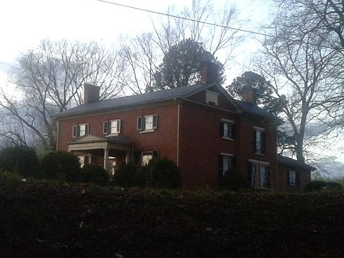 Morven